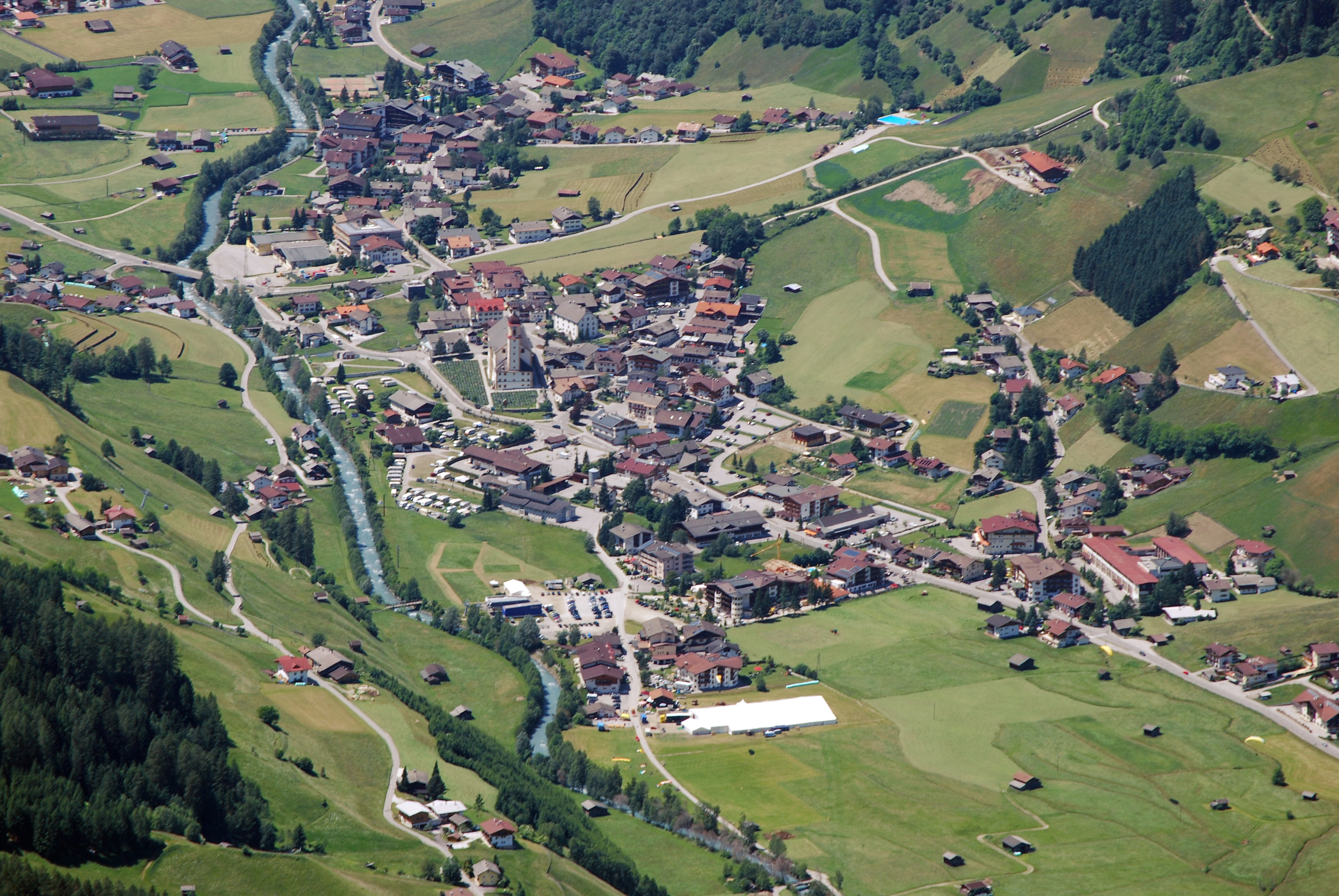 Neustift from Serles (NW)